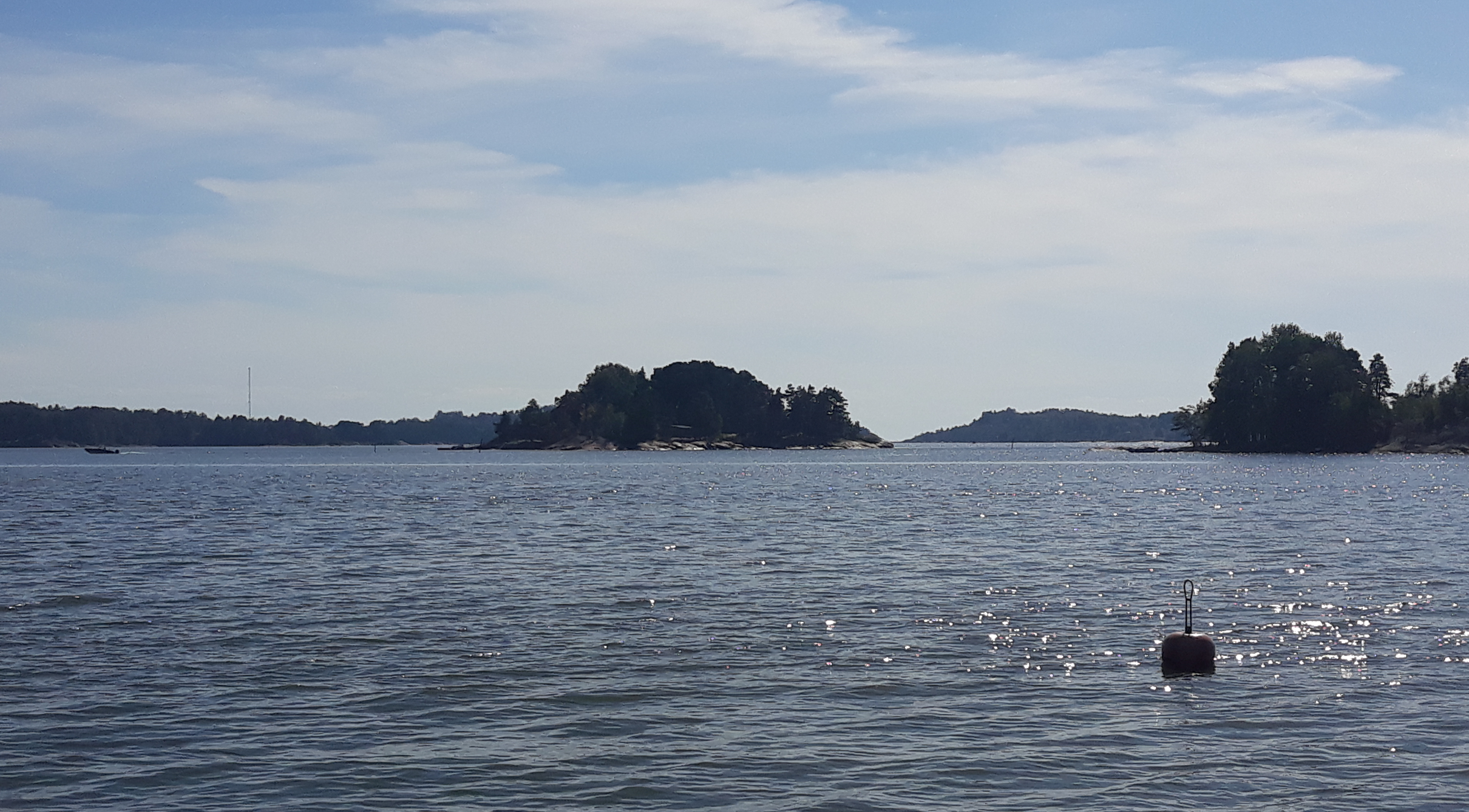 Koivusaari in Santahamina, Helsinki, as seen from the shore of Stansvik.